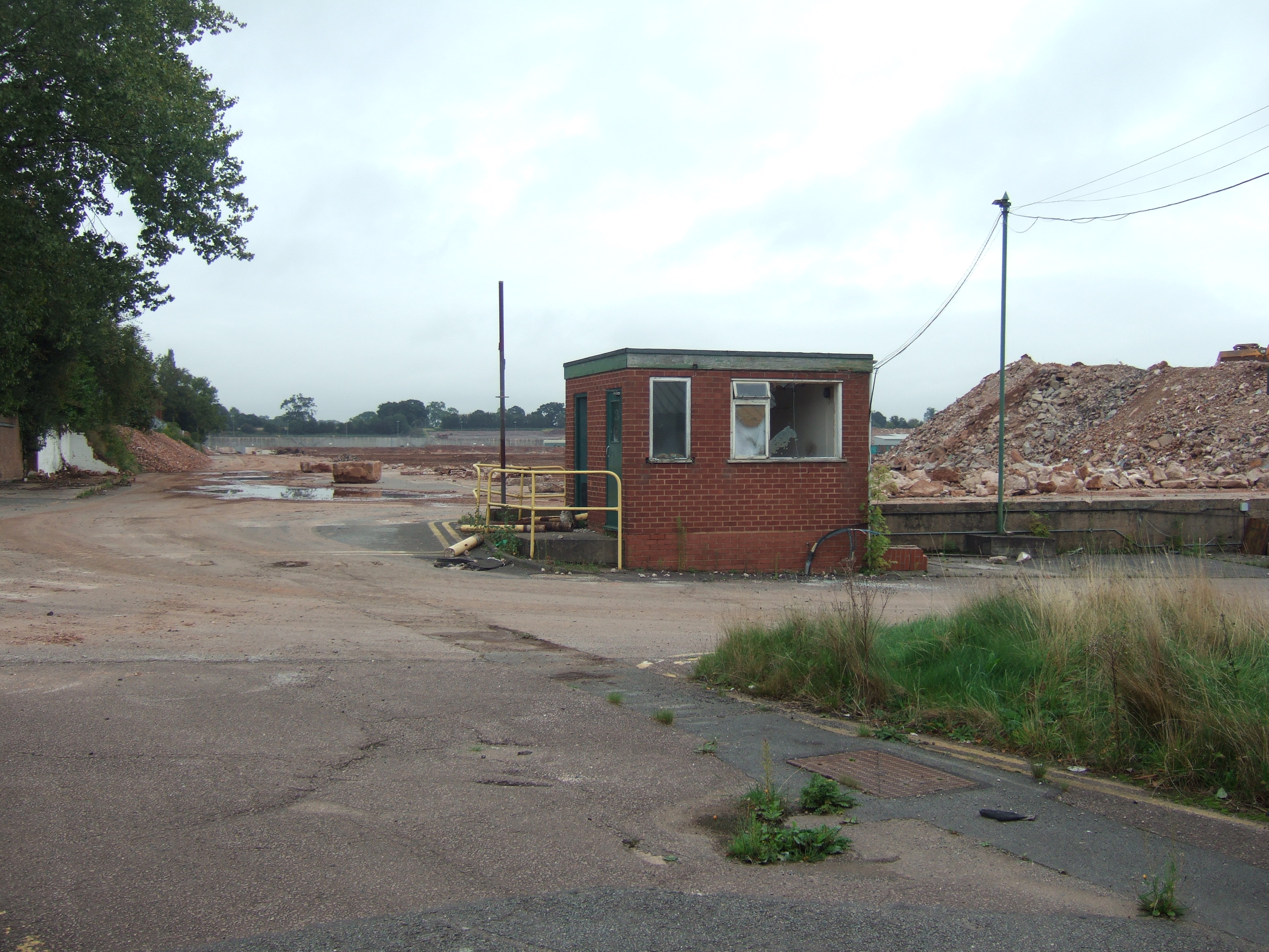 View of the Jaguar Cars Brown lane factory being demolished